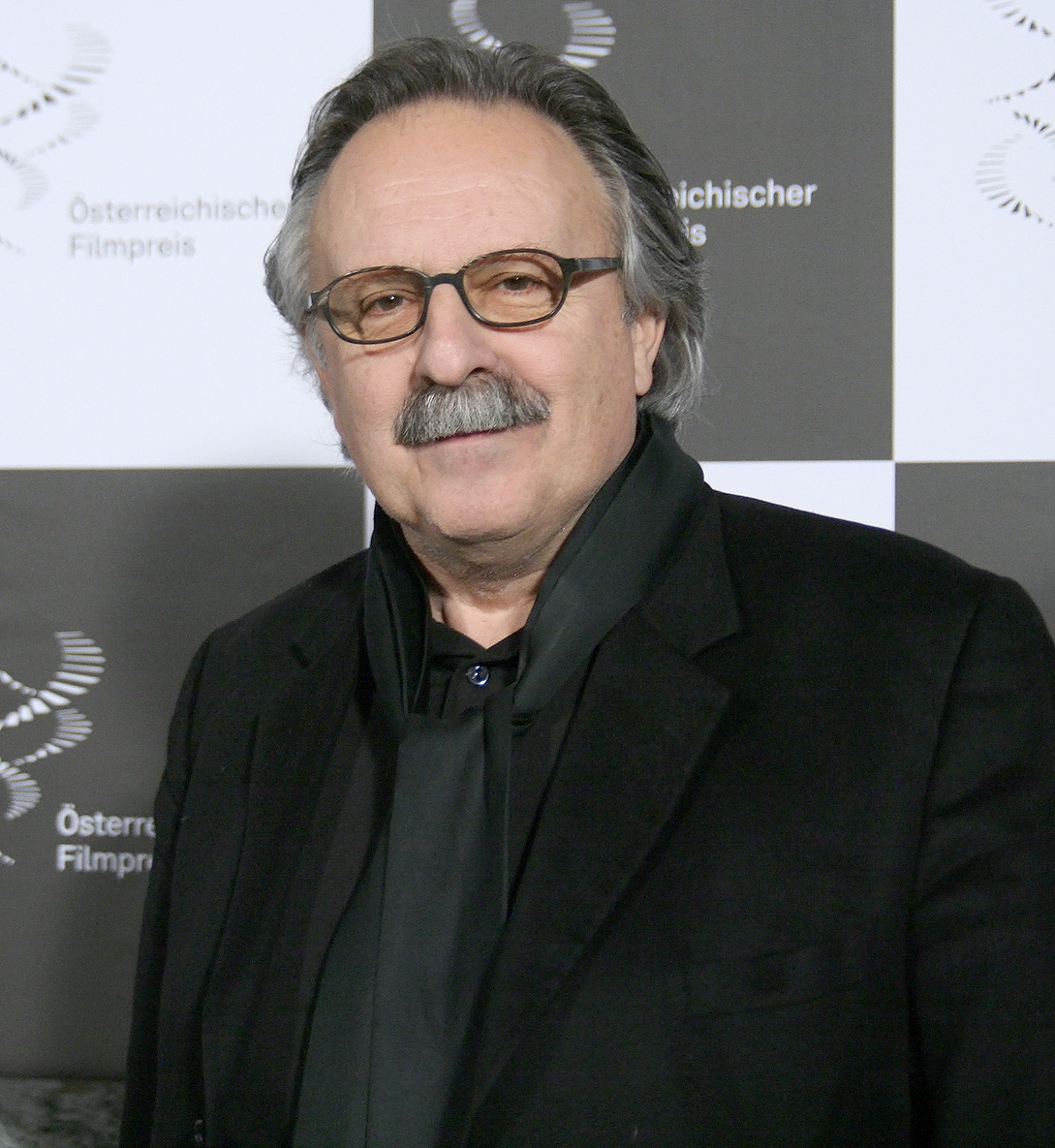 Milan Dor, Austrian Film Awards 2012 (Vienna).